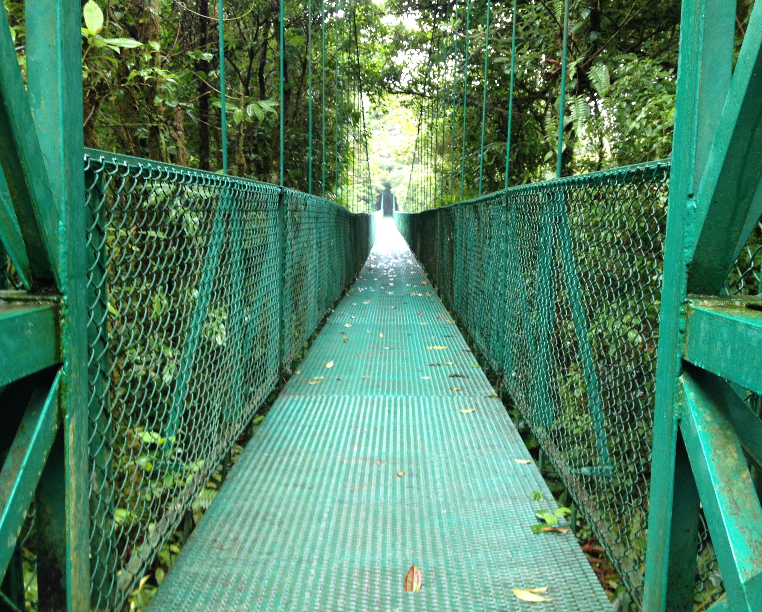 This is a suspension bridge, which is part of the treetop walkway system through the cloud forest in Selvatura Park. Selvatura Park is located in Monteverde, Puntarenas, Costa Rica. This suspension bridge is part of the longest bridge system in Costa Rica.